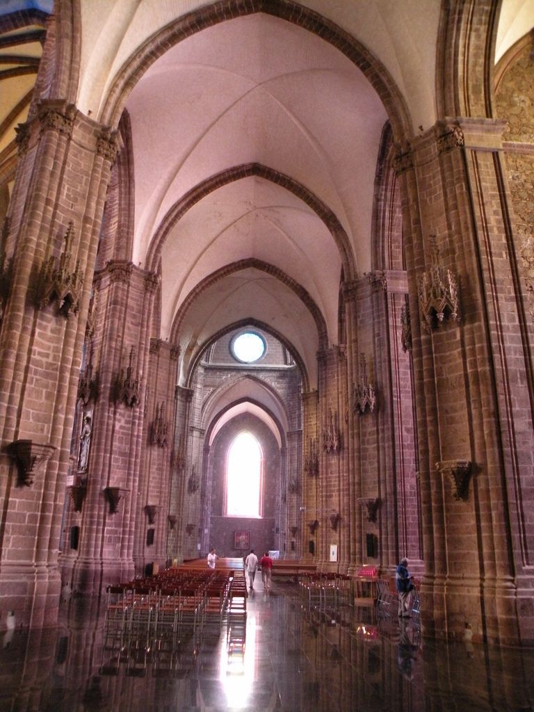 Imagen del interior del santuario, Hlowtweg